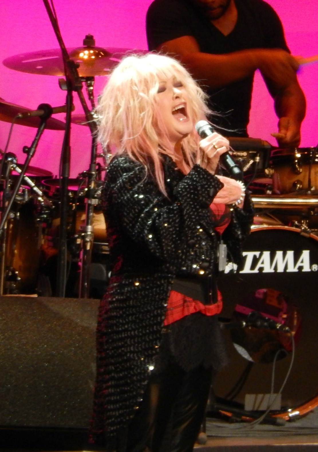 Cyndi Lauper at the Beacon Theater.